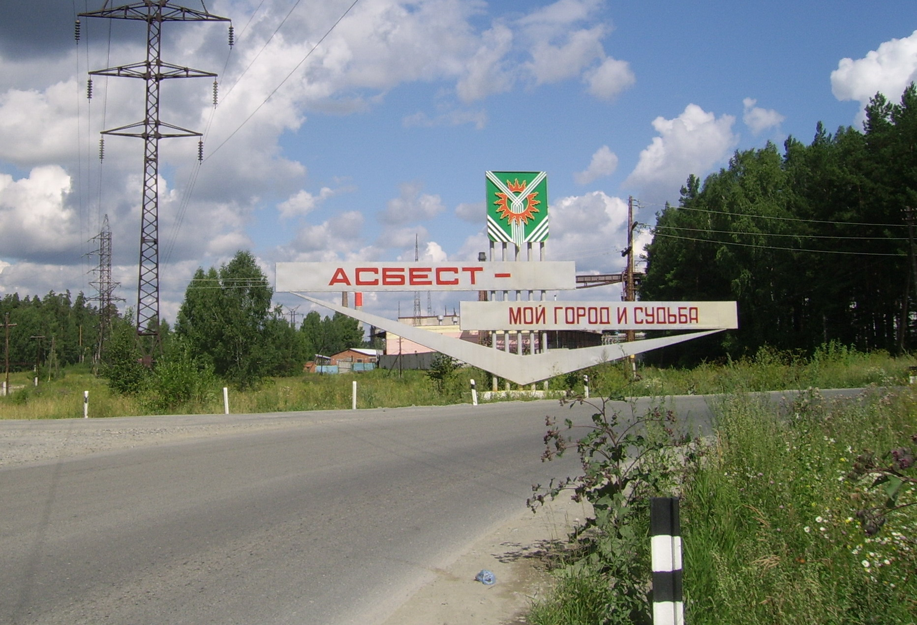 Sign in the Russian city Asbest (Sverdlovsk Oblast). Translated as "Asbest - My city and destiny".